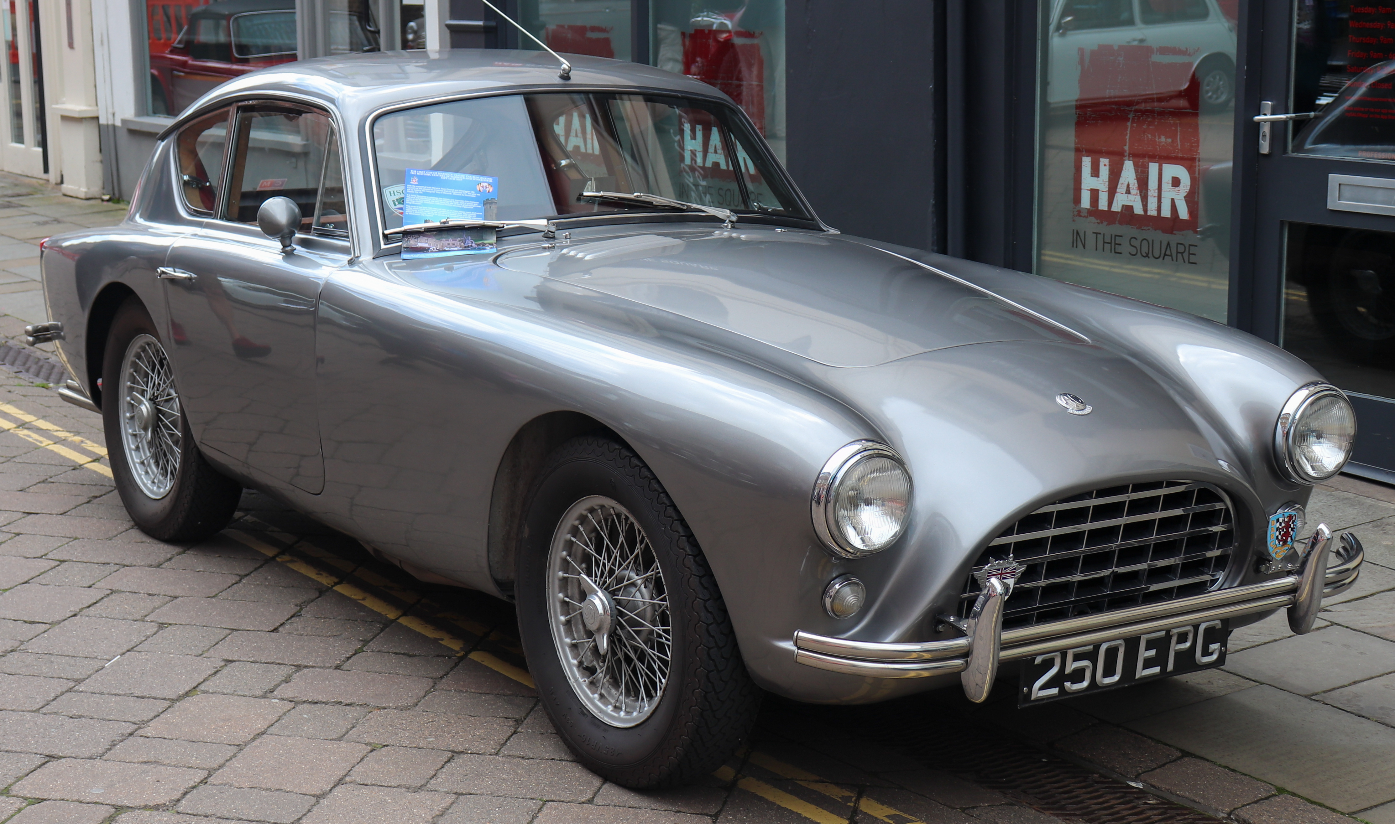 1958 AC Aceca 2.0 Front (Slighty annoyed for not removing the leaflet from the wiper) Taken at the 2019 Warwick Classic Car Show